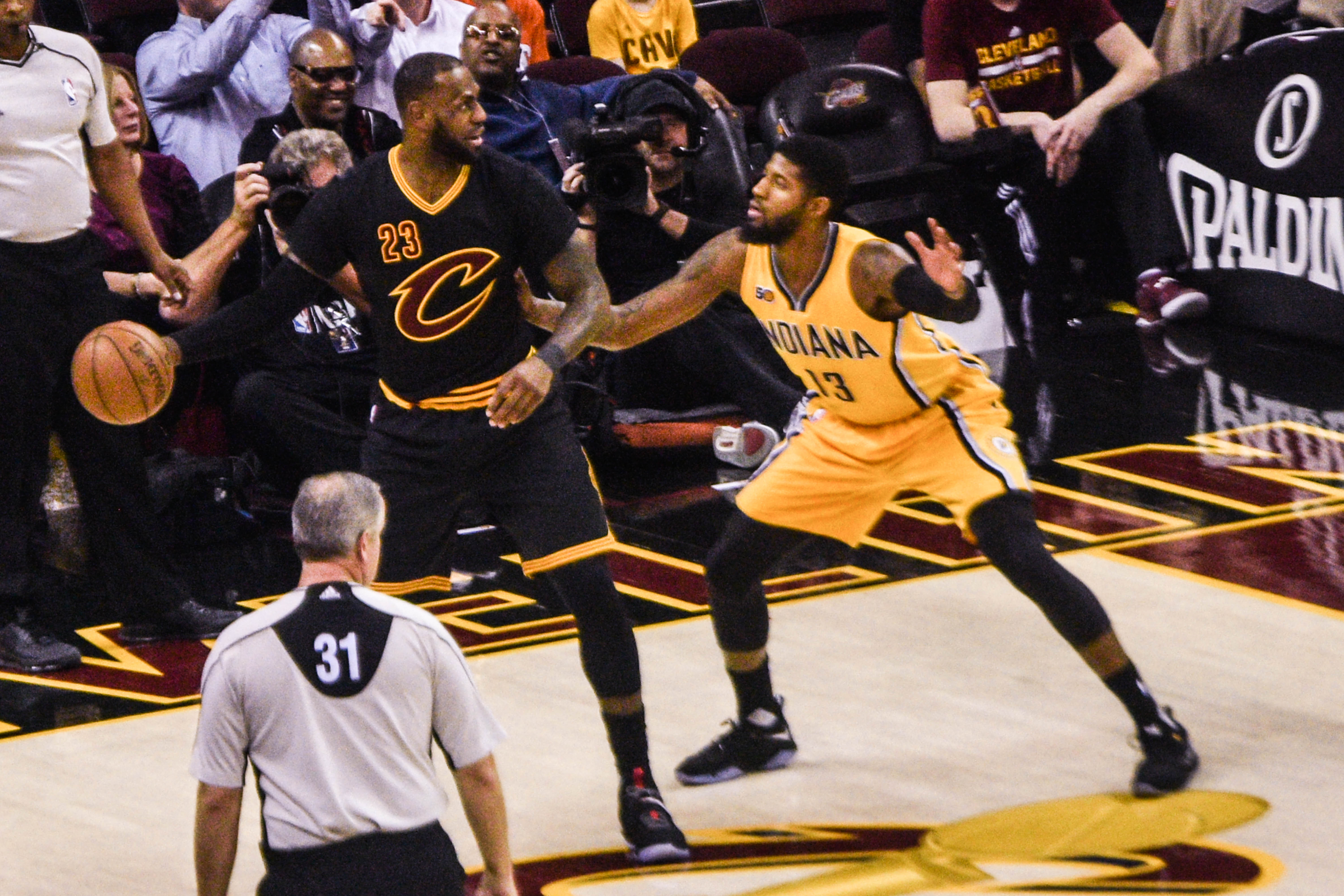 Paul George defending LeBron James in February 2017.